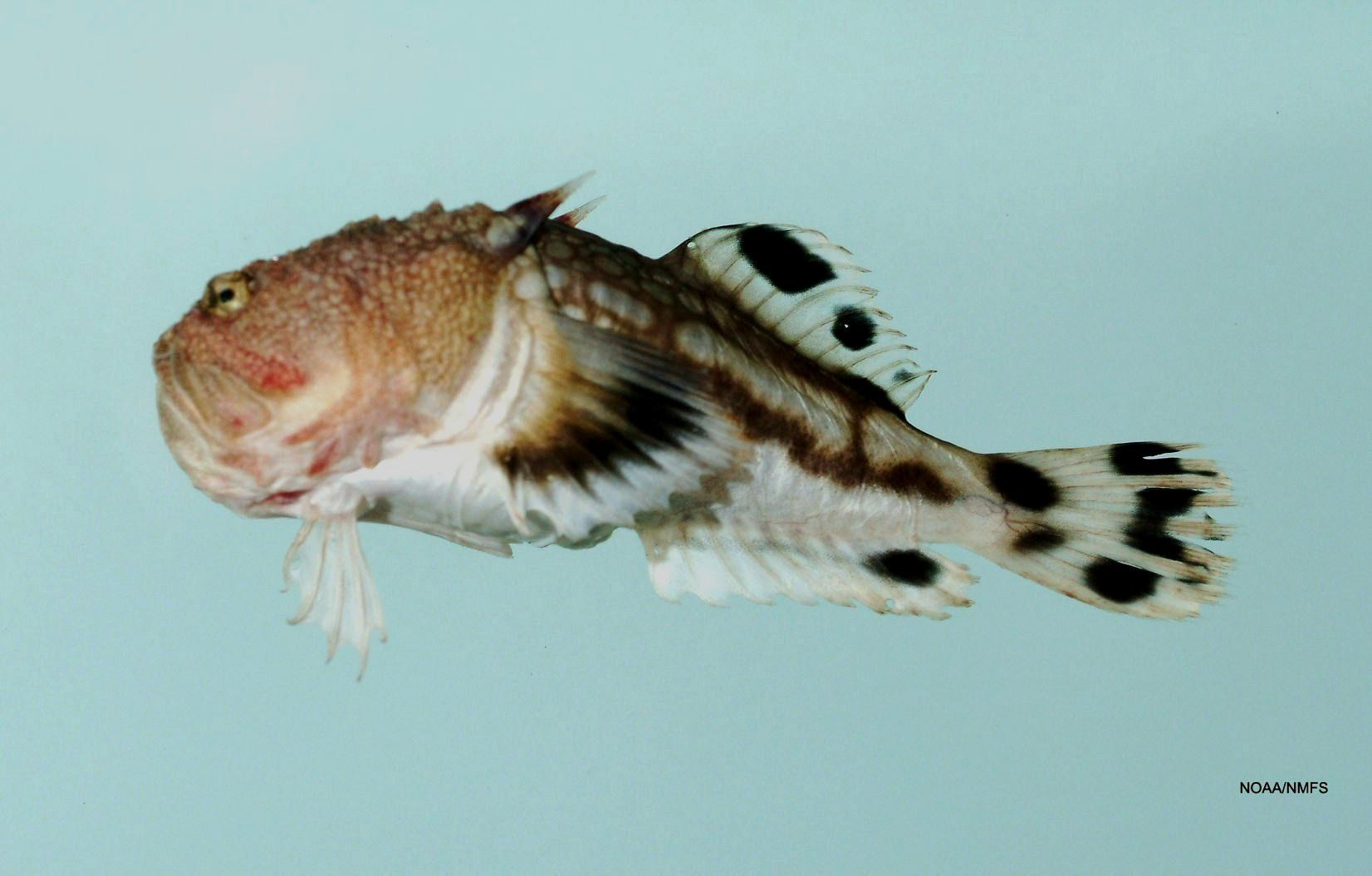 Lancer stargazer ( Kathetostoma albigutta ). Gulf of Mexico.